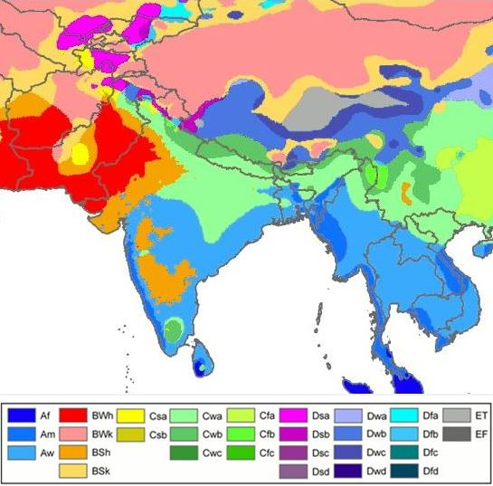 South Asia- Köppen-Geiger climate classification map is based on native vegetation, temperature, precipitation and their seasonality. (Af) Tropical rainforest (Am) Tropical monsoon (Aw) Tropical savanna, wet & dry (BWh) Hot desert (BWk) Cold desert (BSh) Hot semi arid (BSk) Cold semi arid (Csa) Mediterr. dry, hot summ. (Cwa) Subtropical humid summ, dry winter (Cwb) Subtropical highland, dry wint (Cfa) Subtropical humid summ (no dry)